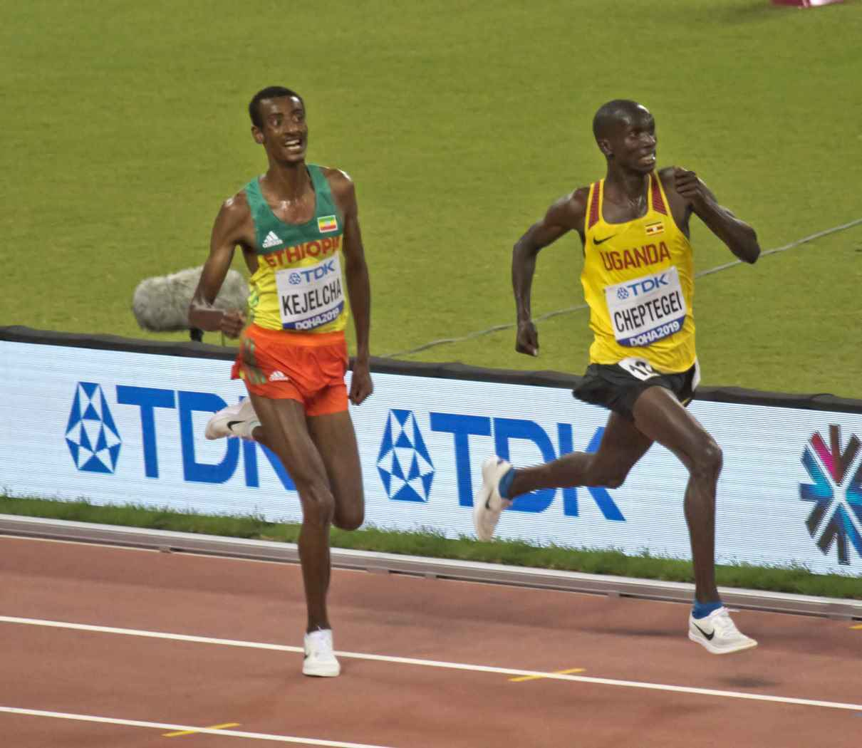 Joshua Cheptegei and Yomif Kejelcha in the men's 10,000 metres final at the 2019 World Athletics Championships in Doha.